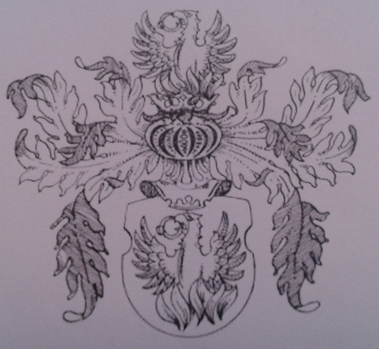 Myslíkové z Hyršova